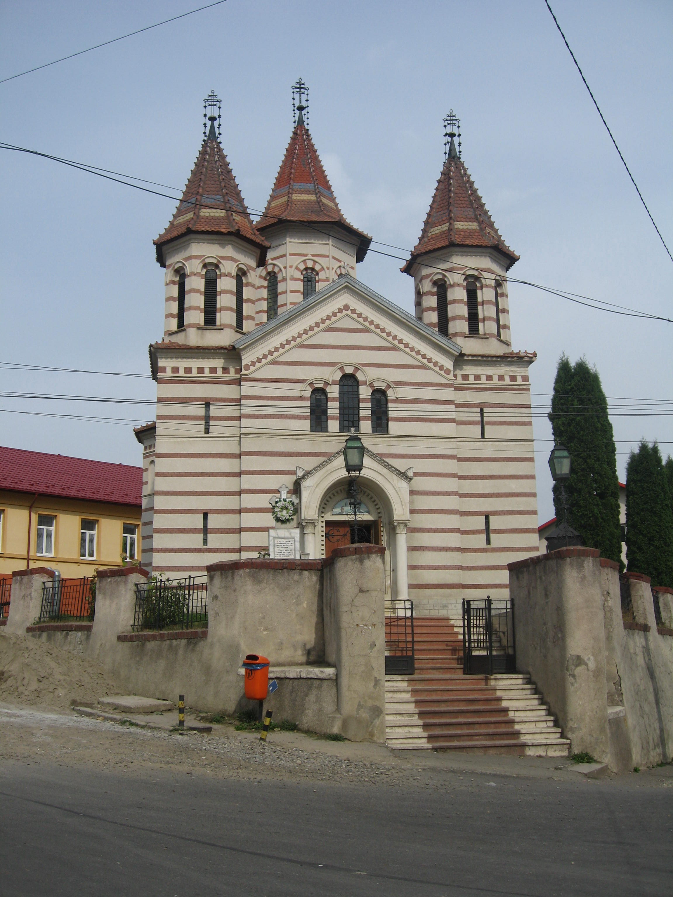 Biserica Schimbarea la Faţă din Siret